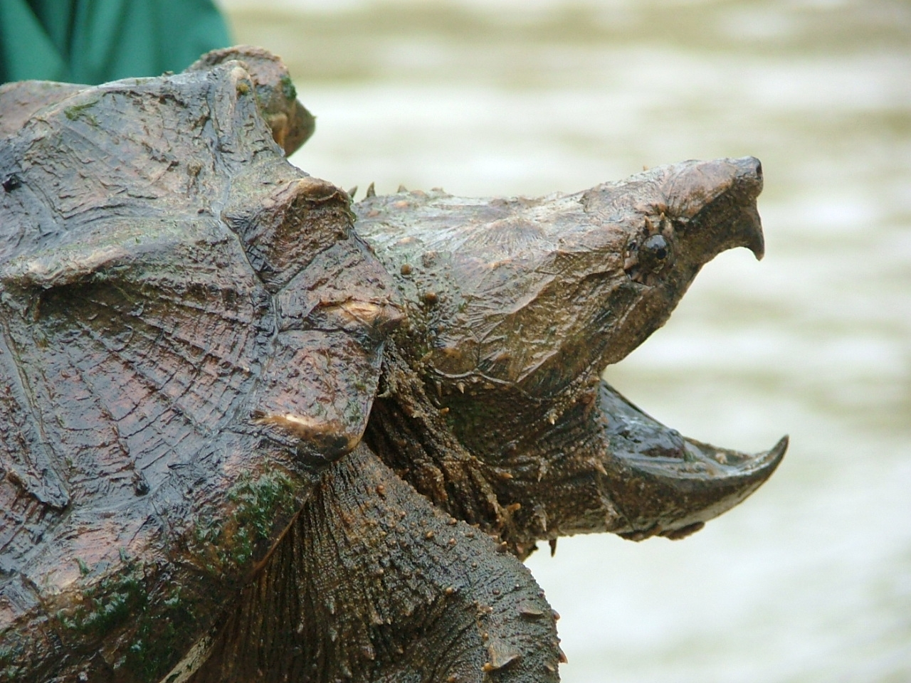 Snapshot of a typically cranky snapping turtle at Cahaba River National Wildlife Refuge in Alabama. Photographer: Garry Tucker, USFWS.